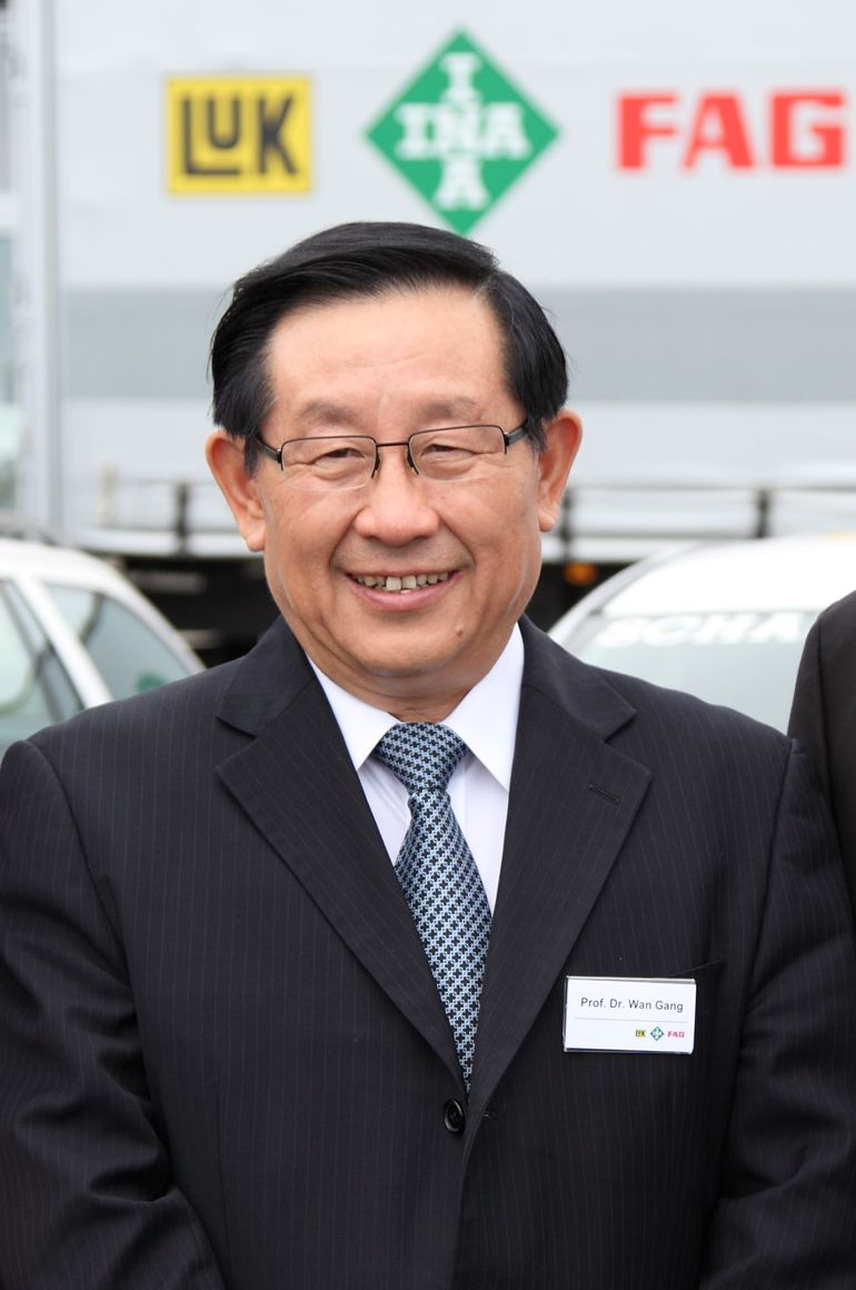 Prof. Dr. Wan Gang visited Schaeffler AG